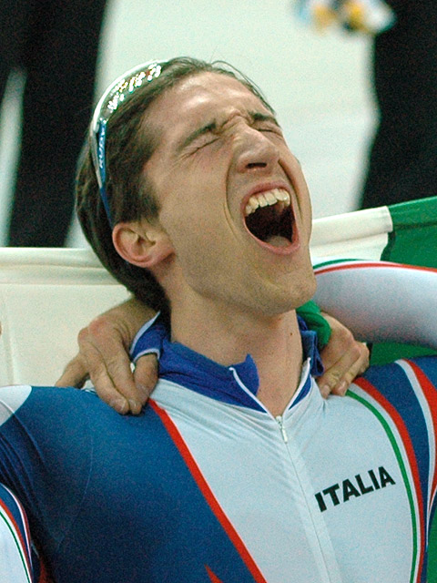 Enrico Fabris celebrating his first gold at the 2006 Winter Olympics in Torino.